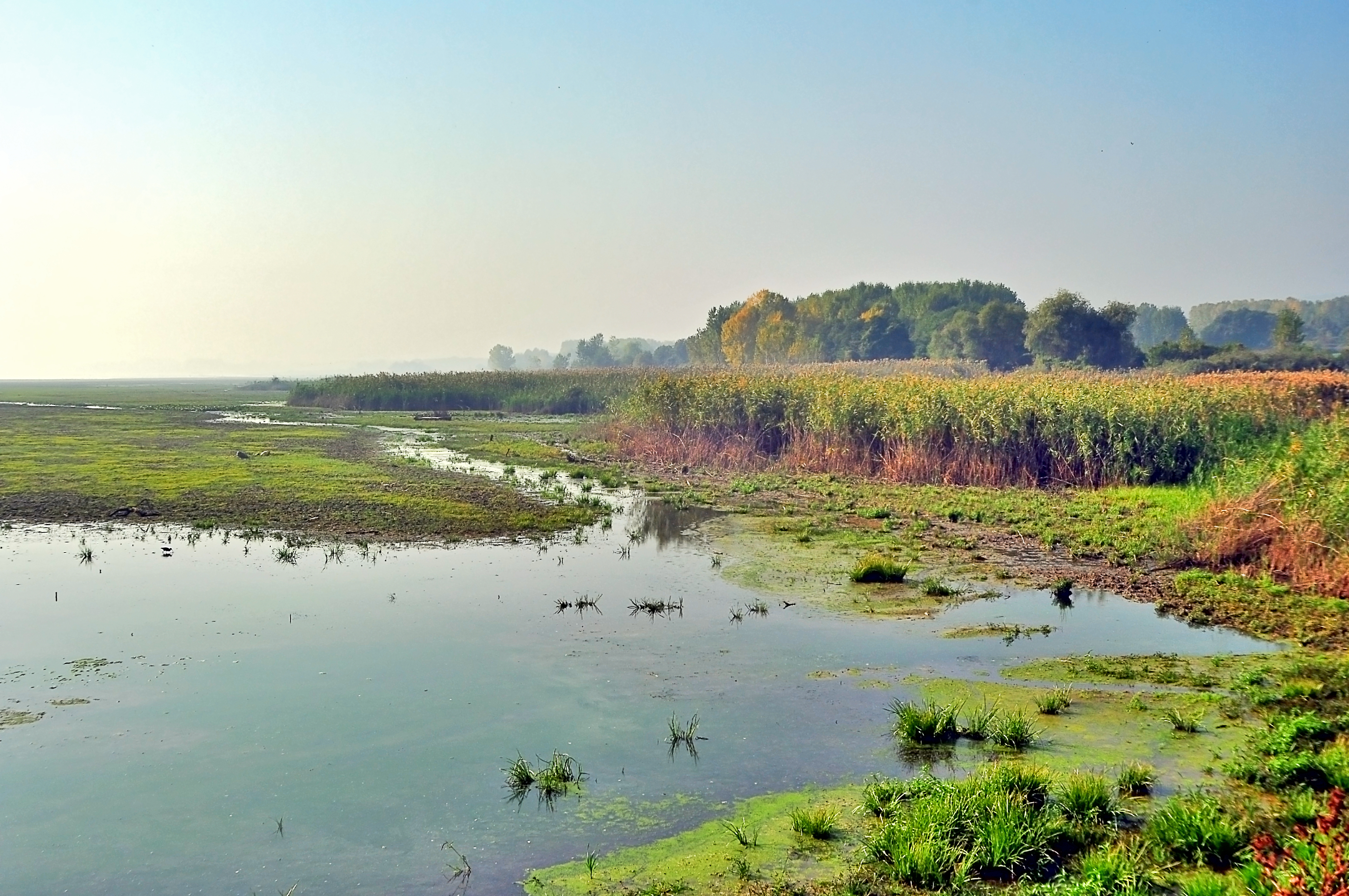 This is a photography of Natura 2000 protected area with ID GR1260001